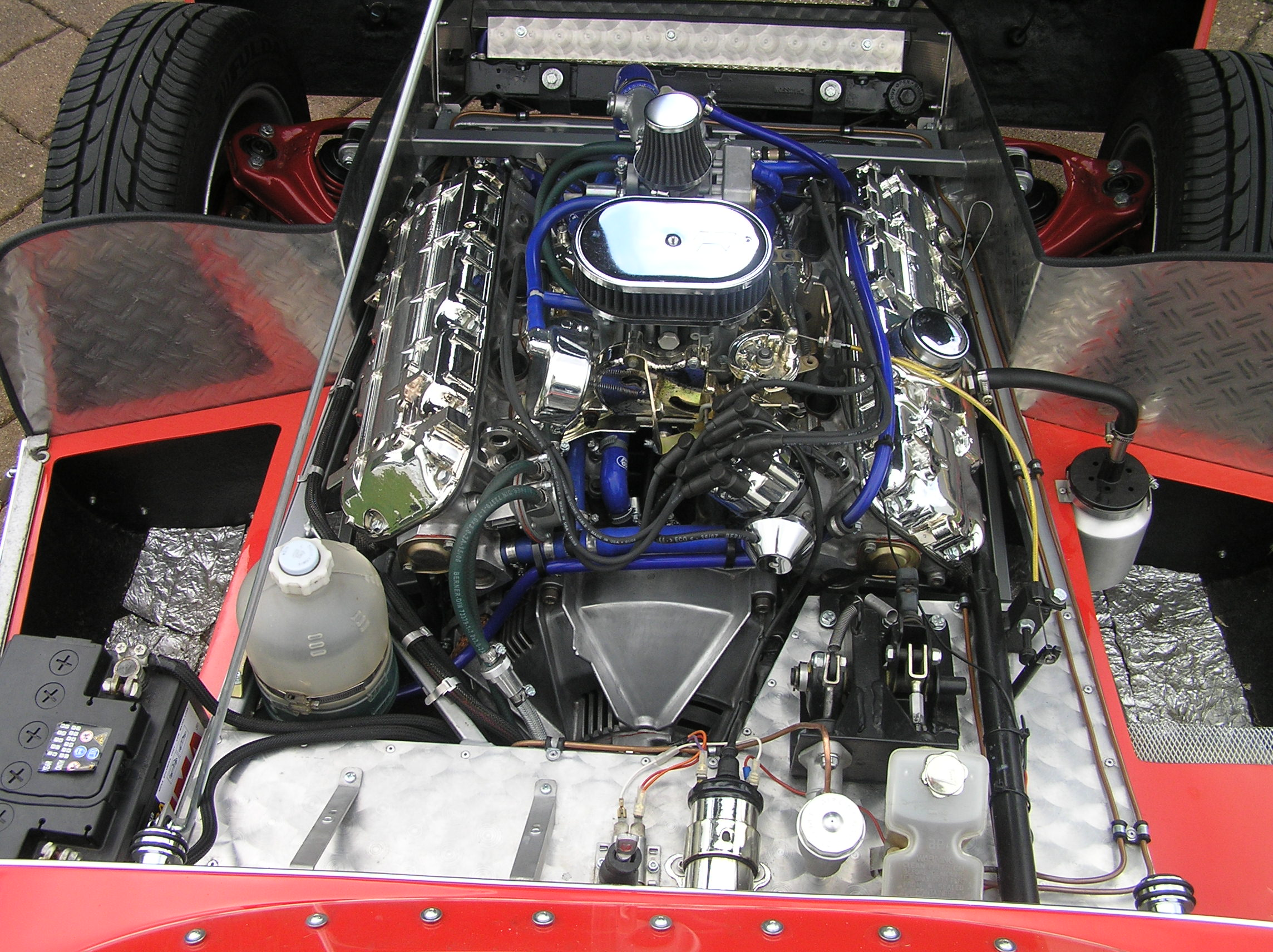 Sylva Striker MK4 Clubman. 1. Prototype with modified engine, 2700 ccm, V6, 2,8 kg/PS